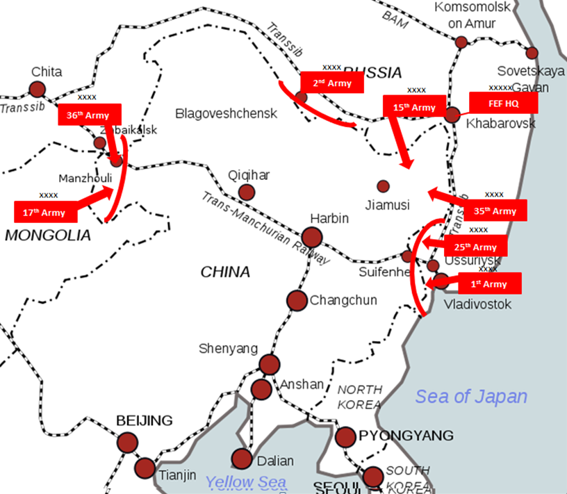 Map of the Soviet operational plan for the Far East, early 1942